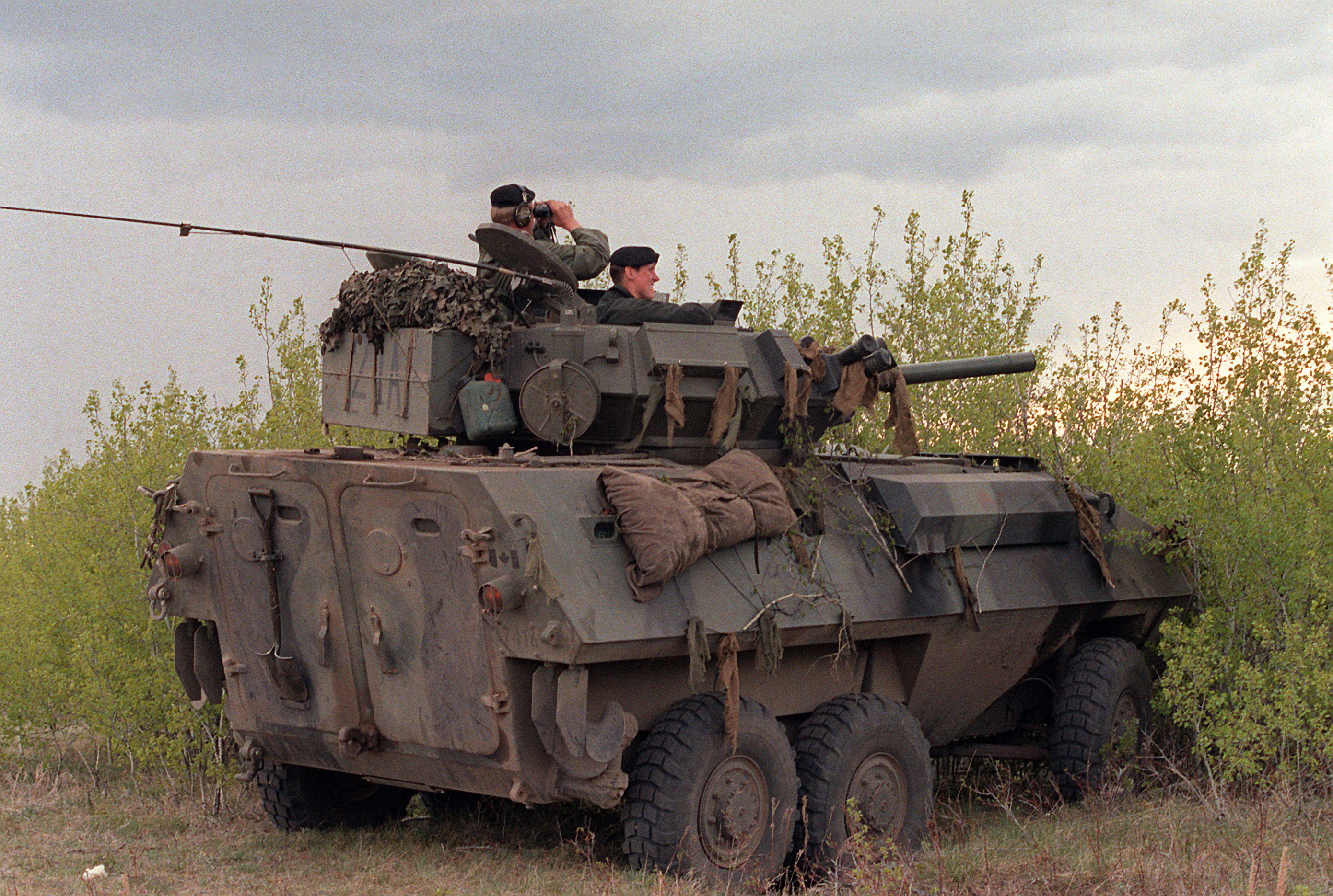 A right rear view of a Canadian army COUGAR wheeled fire support vehicle that is being used as an observation post by soldiers standing watch during the combined U.S./Canadian NATO Exercise Rendezvous '83. Location: CAMP WAINWRIGHT, ALBERTA (AB)